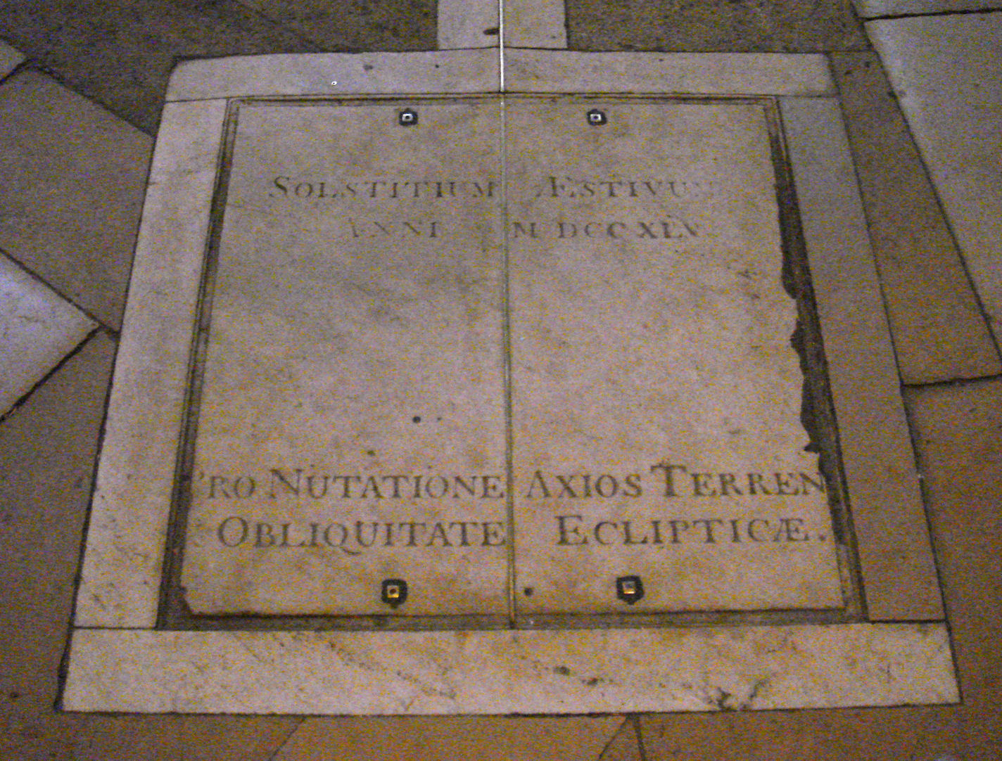 Gnomon_southern_plaque in Saint Supilce